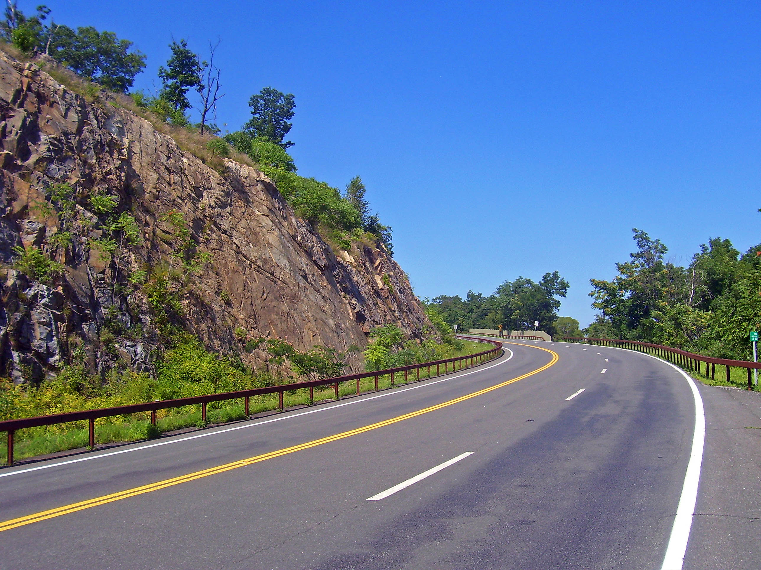 US 9W\202 climbing the mountains of the west bank of the Hudson in northern Rockland County, NY, USA